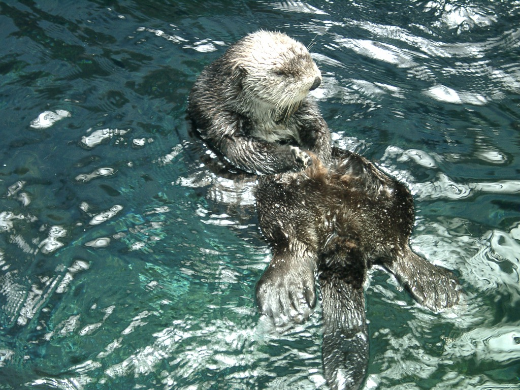 Sea Otter